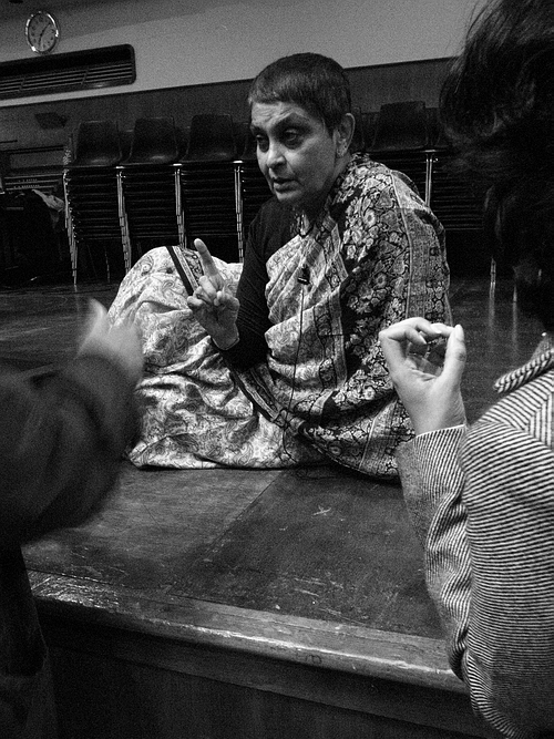 Gayatri Chakravorty Spivak at Goldsmiths College, University of London, 2007. Photo by Shih-Lun CHANG.